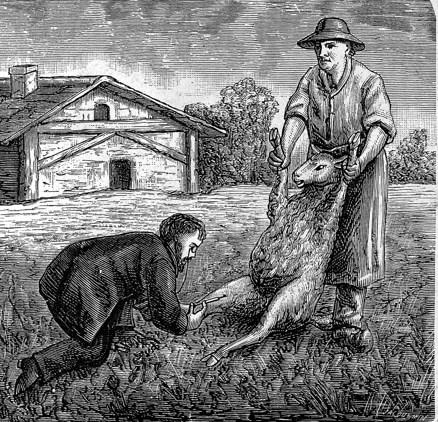 Pasteur inoculating a sheep against anthrax. Rare Books Keywords: Louis Pasteur; Charles Edouard Chamberland